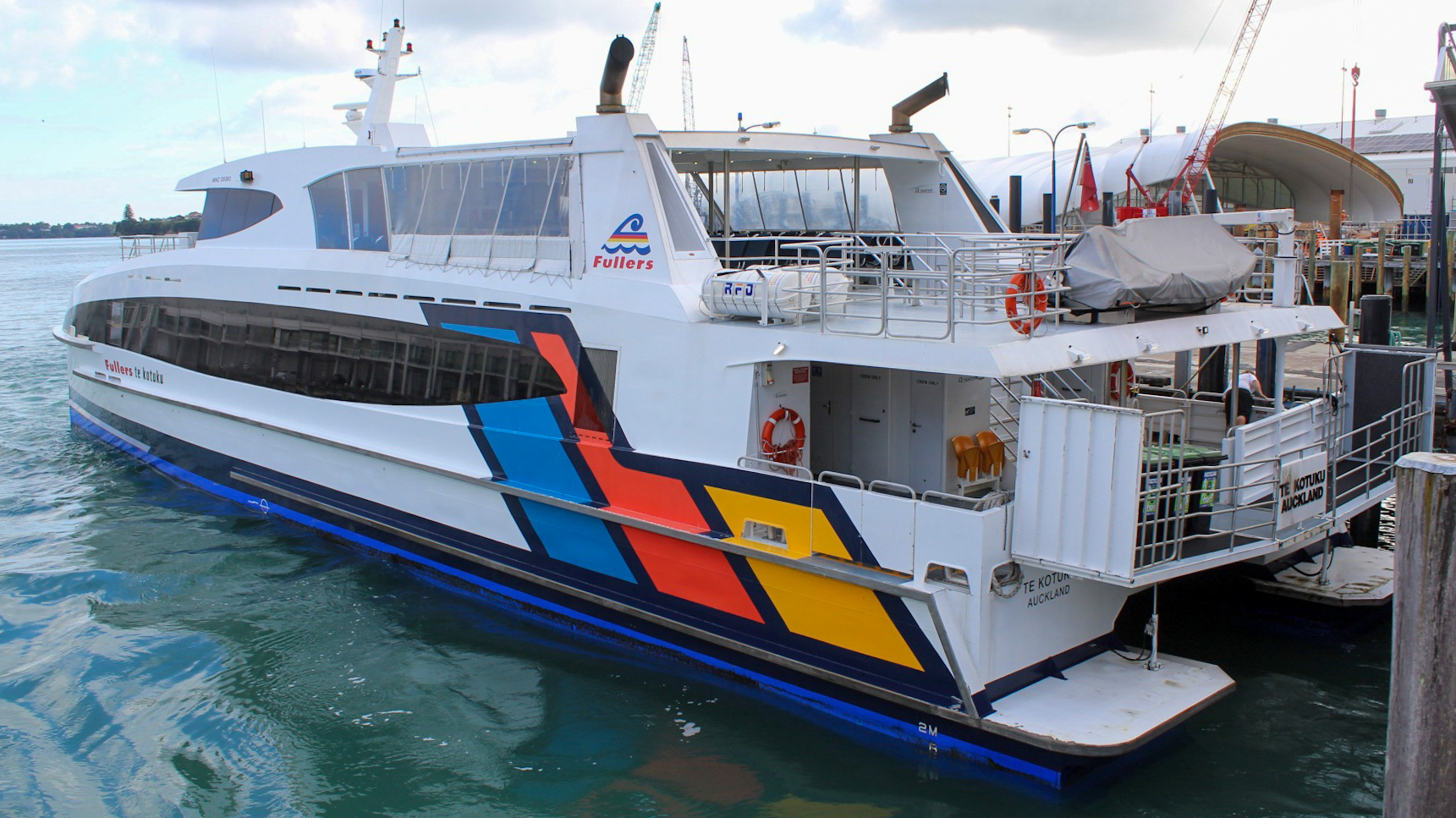 Te Kotuku